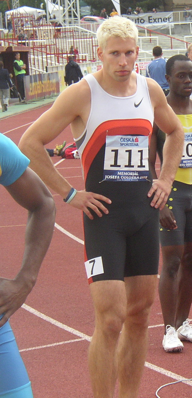 Czech sprinter Jiří Vojtík moments before 200 m final at Josef Odložil Memorial in Prague, June 16, 2008 (5th place in 20.89 s, wind +0.9 m/s).